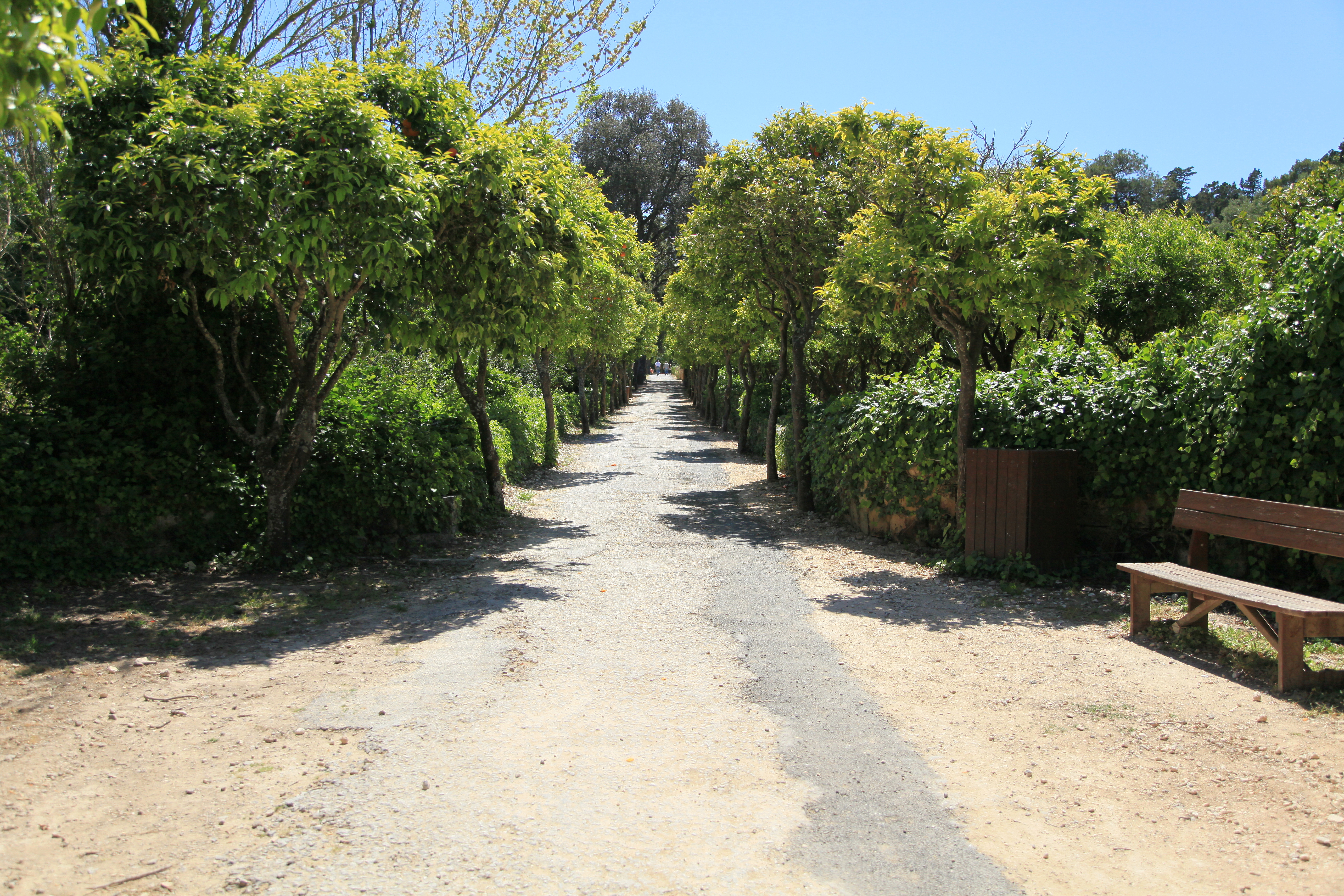 Buskett Gardens, Triq il-Buskett in Siġġiewi, Malta